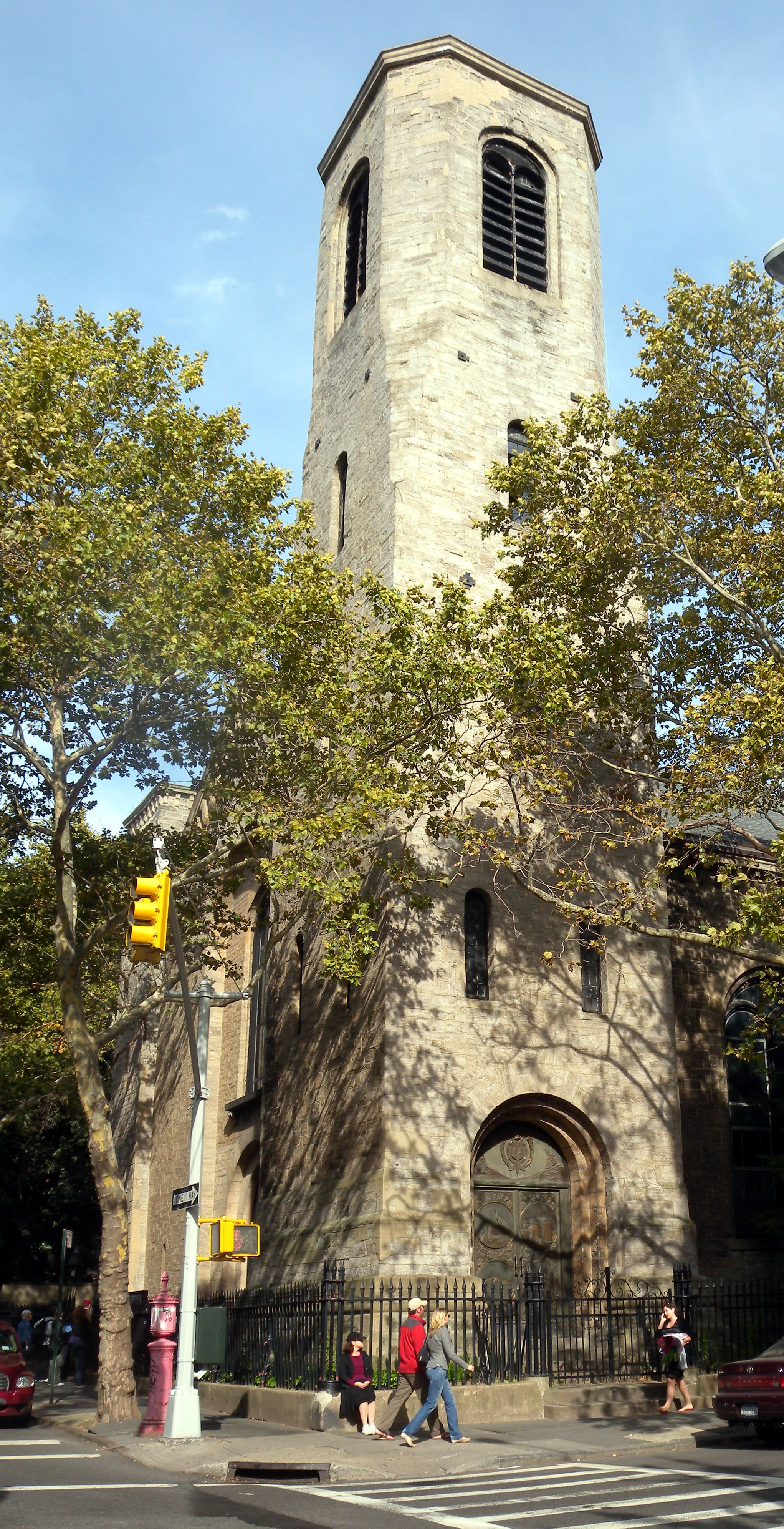 Looking northeast at steeple of Maronite Cathedral of Our Lady of Lebabon on a sunny afternoon. From SS Normandie : Upper left medallion: SS Île-de-France. Upper right medallion: château des ducs d'Alençon. Lower left medallion: château de Dieppe. Lower right medallion: château de Falaise.